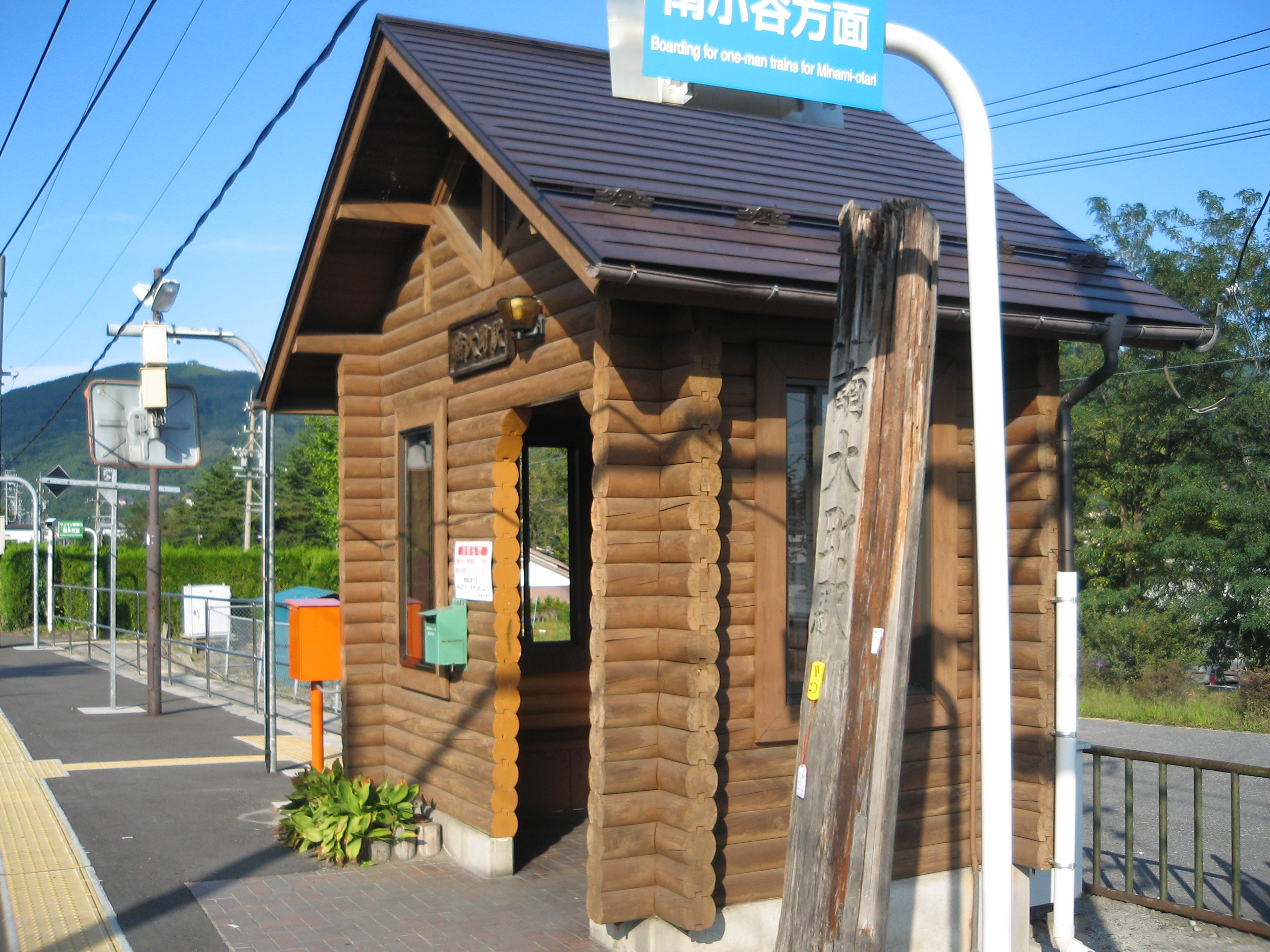 Minami-Omachi Station on Oito Line